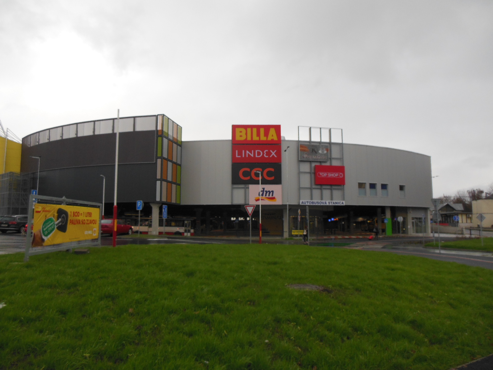 Terminal Shopping Center in Banská Bystrica, Slovakia, November 2017. The shopping centre is also a bus terminal.